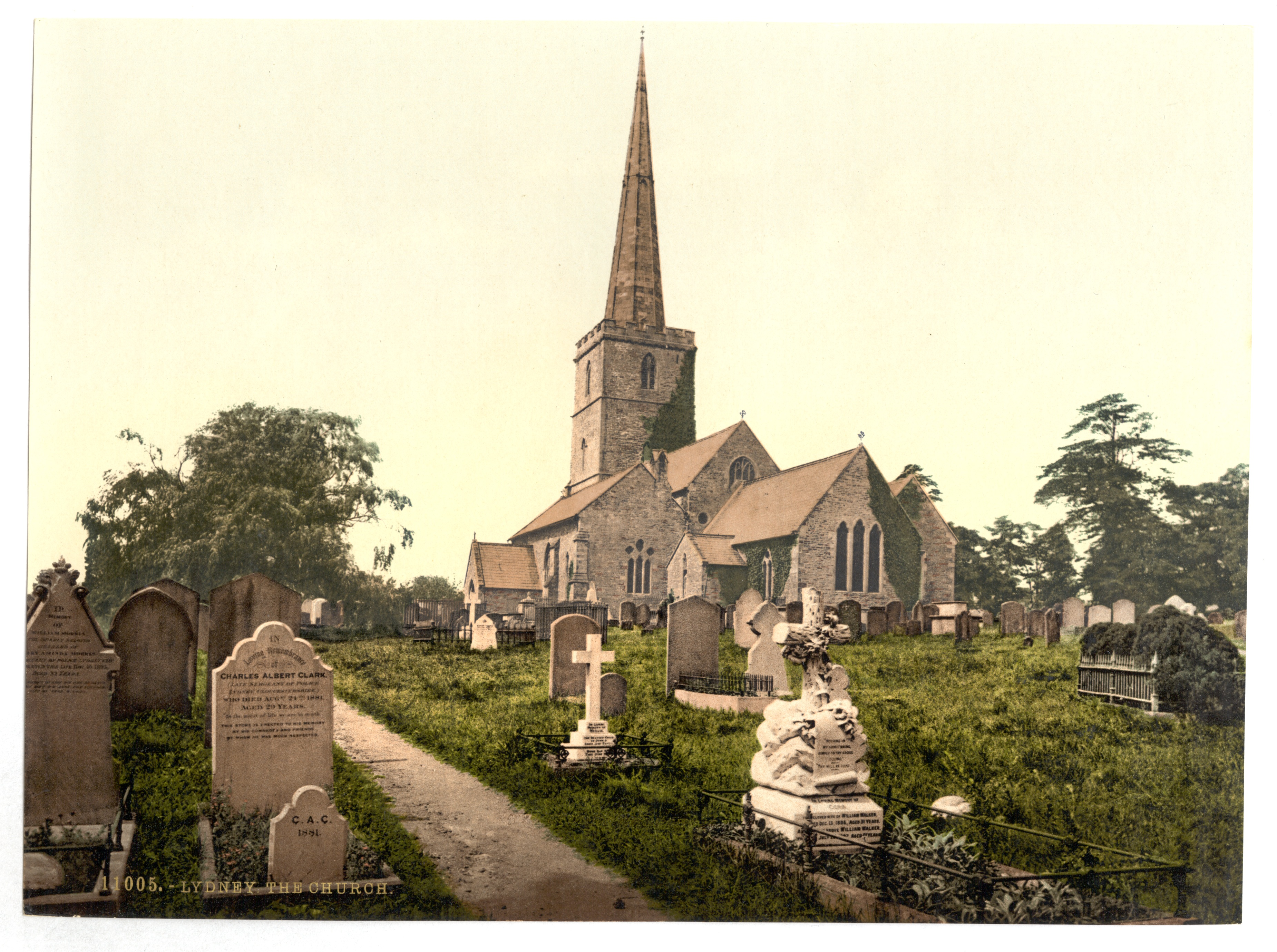 Forms part of: Views of the British Isles, in the Photochrom print collection.; More information about the Photochrom Print Collection is available at Print no. "11005".; Title from the Detroit Publishing Co., Catalogue J-foreign section, Detroit, Mich. : Detroit Publishing Company, 1905.